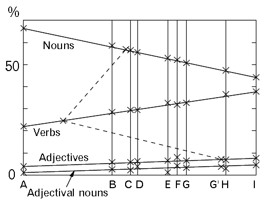 Data came from Ōno (1956) and reproduced in Mizutani (1989). The user tossh_eng analyzed the data to optimize the position of vertical lines on the x-axis to follow the original autor's intention. This figure was depicted by tossh_eng using a graphics-support software 'Hanako version 2005' of Justsystem, Japan.